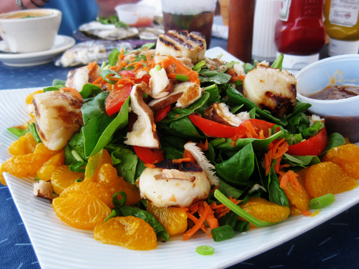 Spinach salad with mandarin oranges, roasted red peppers, and grilled scallions with peanut-based dressing